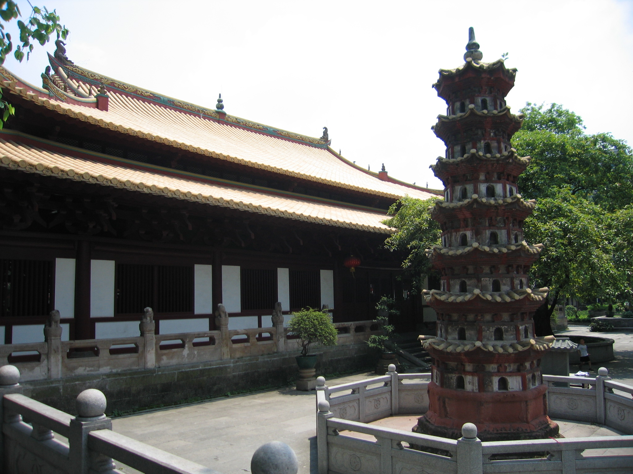 Guangxiao Temple in Guangzhou, China.